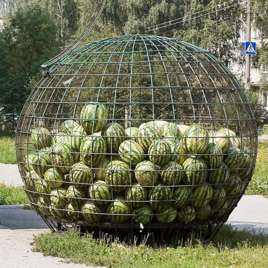 Melons in cage, Russia.